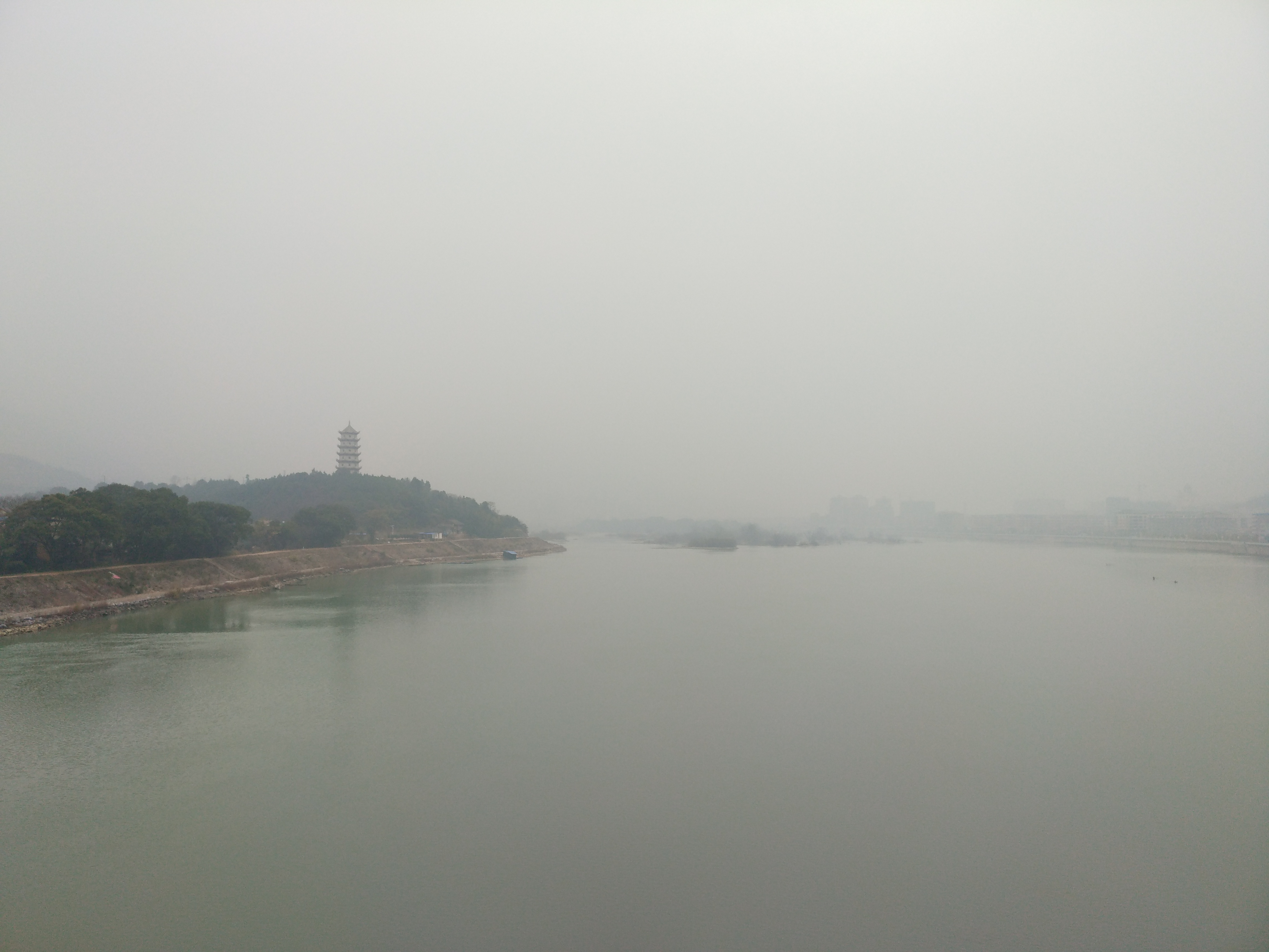 Picture of Xiao River (Xiaoshui) in Yongzhou, Hunan, China.